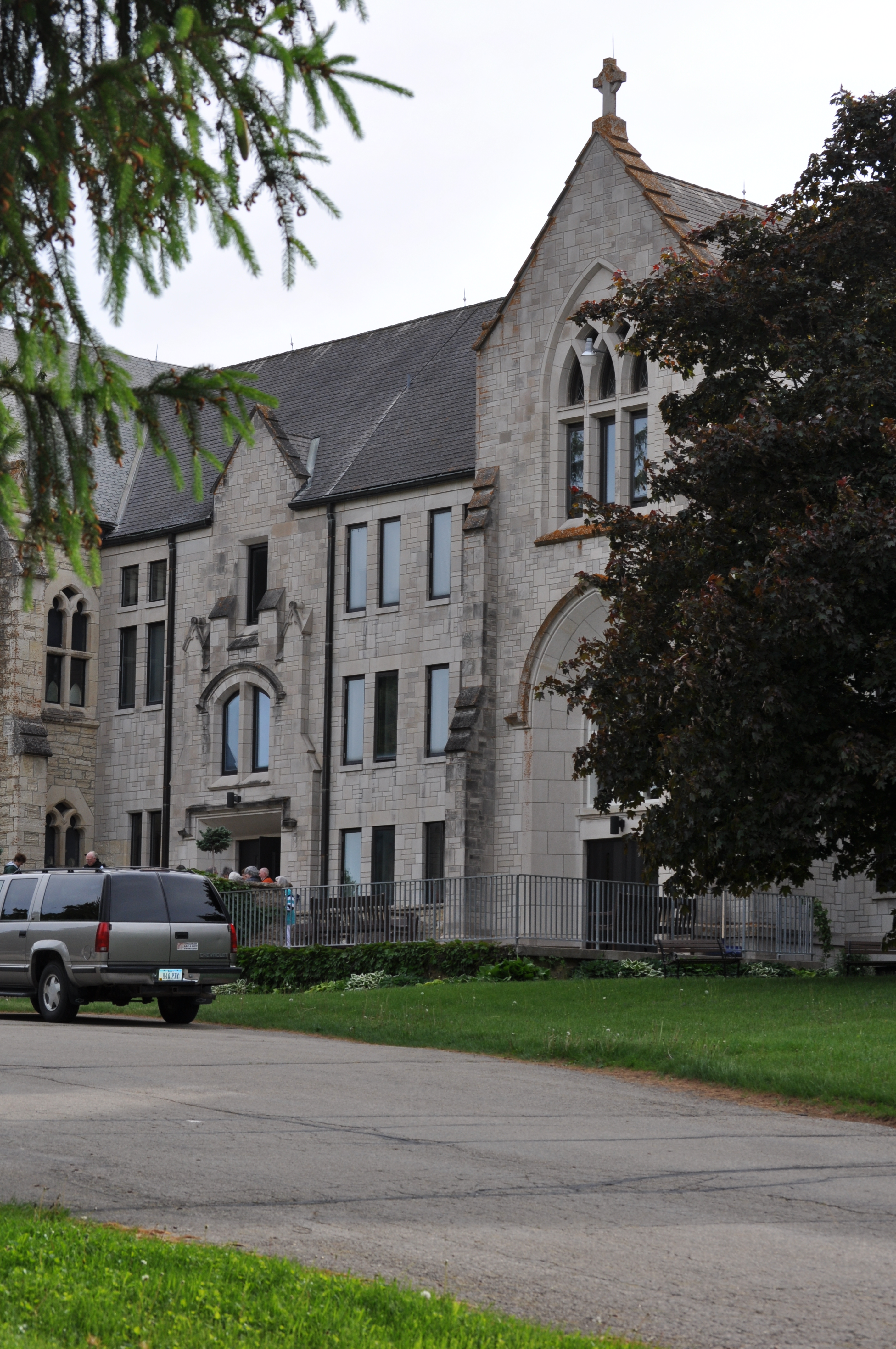 Exterior view of New Melleray Abbey